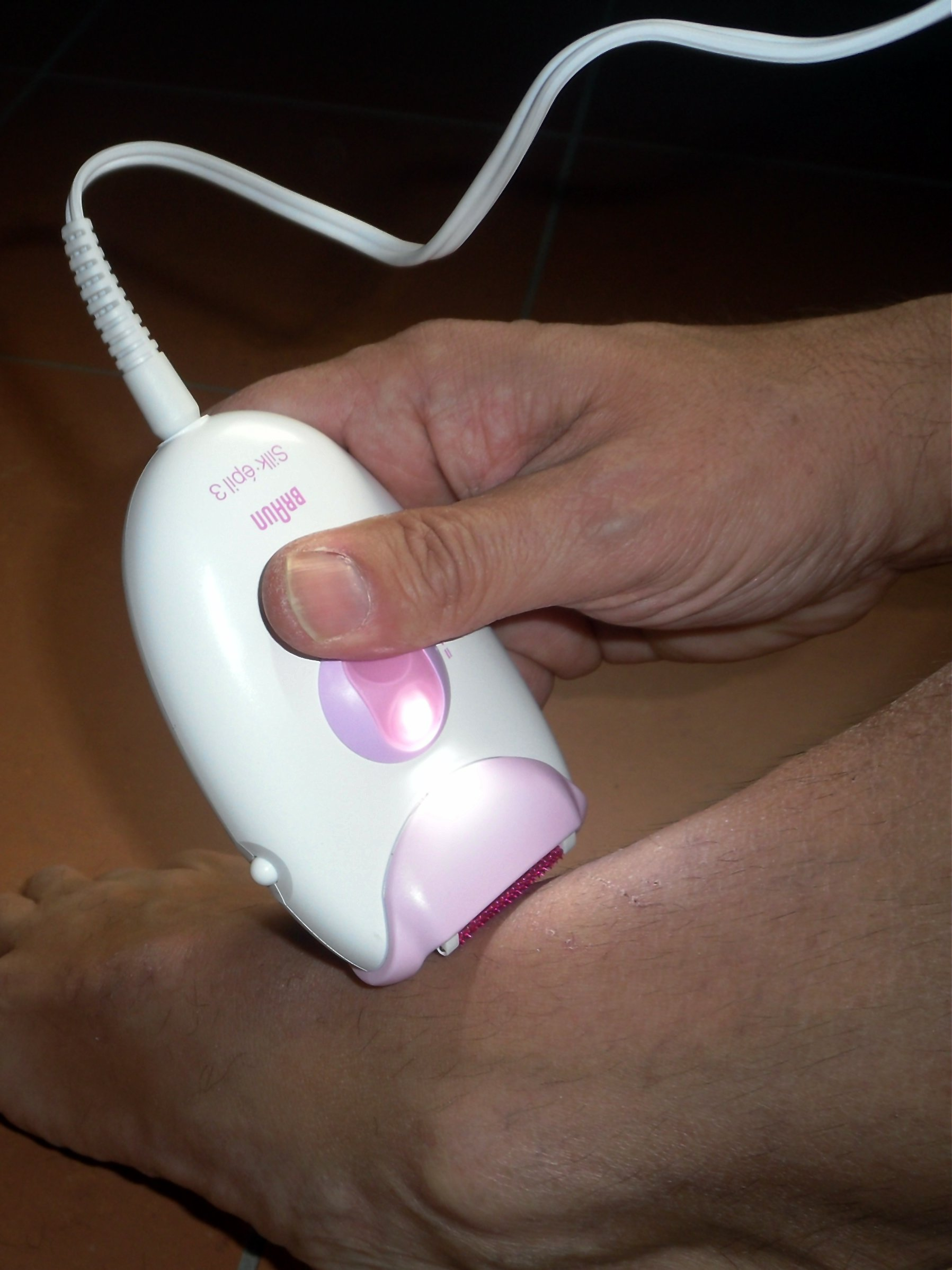 Braun epilator in operation